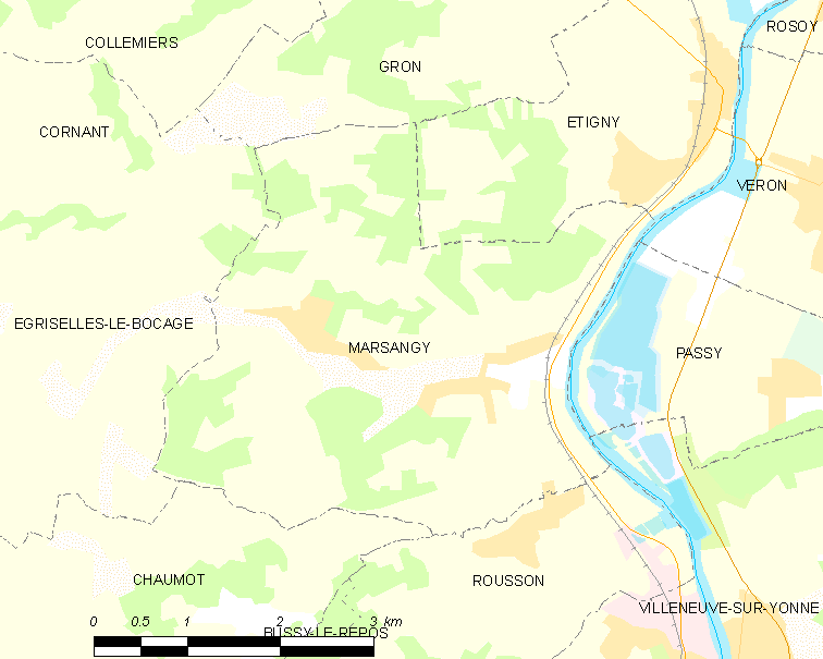 Map of French municipality Marsangy